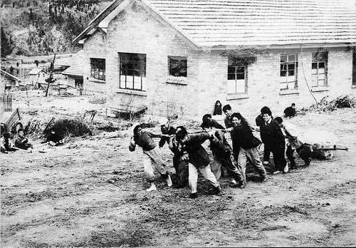 Chinese Medician Gu Fangzhou is working in the construction site of Institute of Biomedical Research in Kunming, Yunnan, China in 1959。 中文（中国大陆）: 中国医学家顾方舟于1959年与职工一起建设位于昆明的生物医学研究所工地。